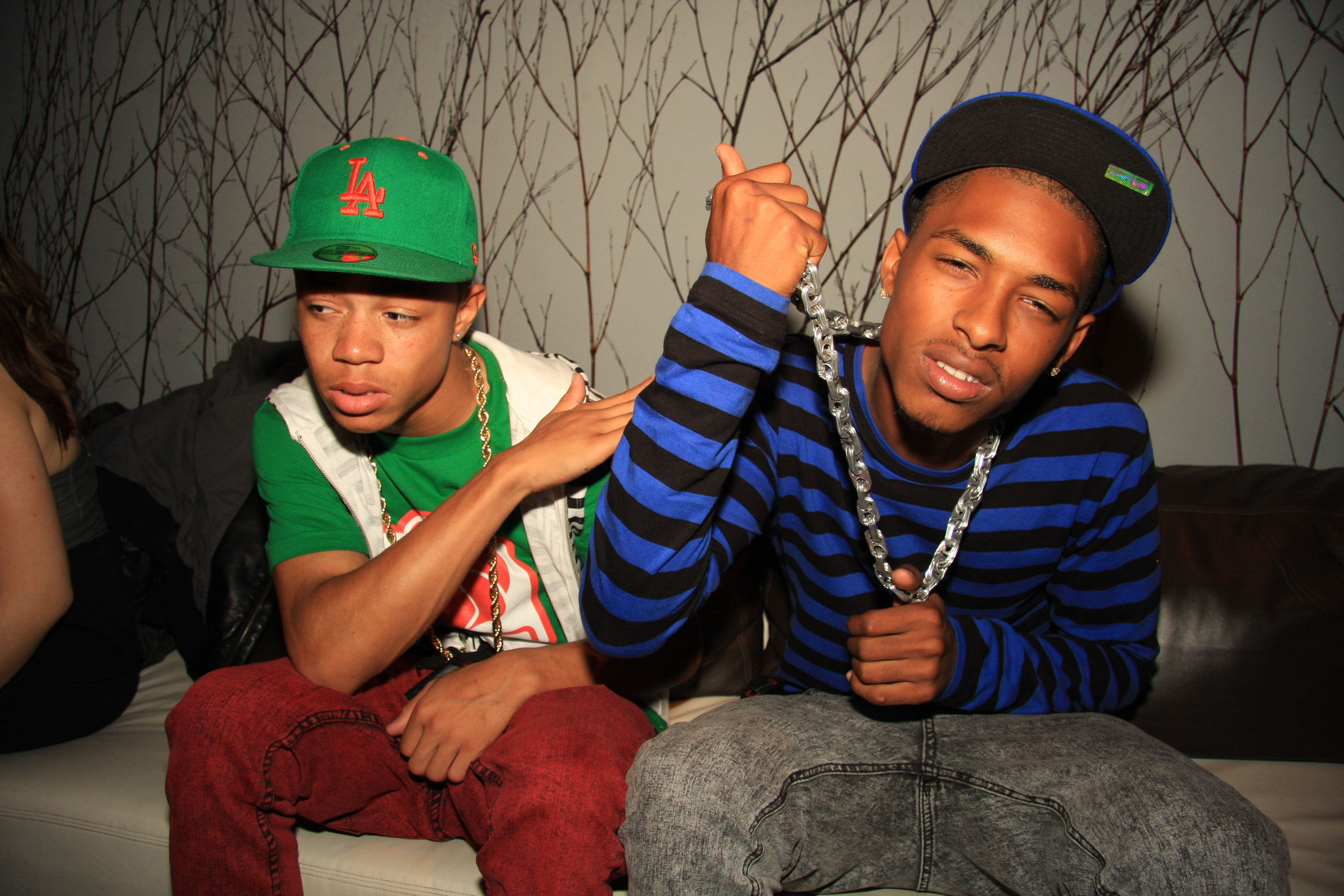 This is a picture of the hip-hop group New Boyz.